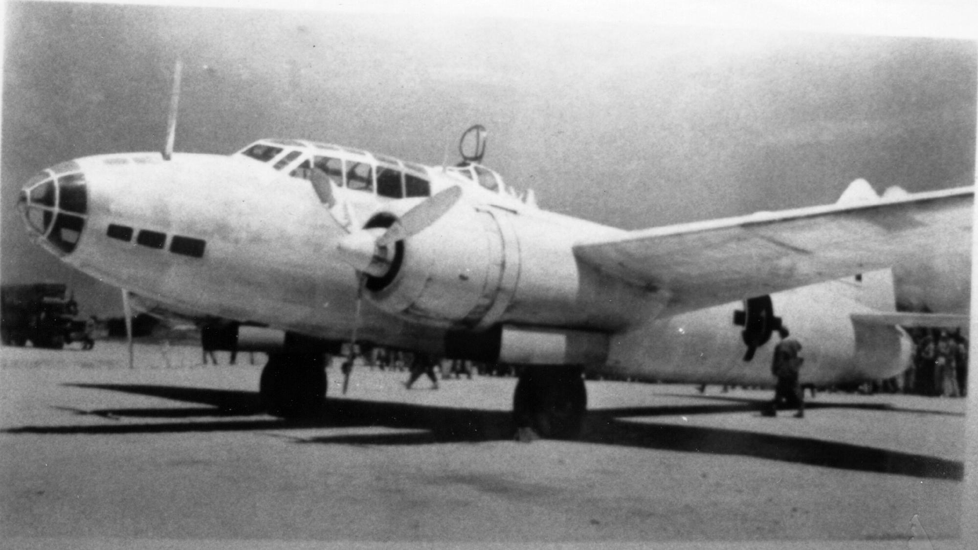 Mitsubishi G4M "Betty" bomber on Ie Shima, August 19, 1945, having carried a Japanese surrender delegation to the island. Note white paint with green cross insignia.